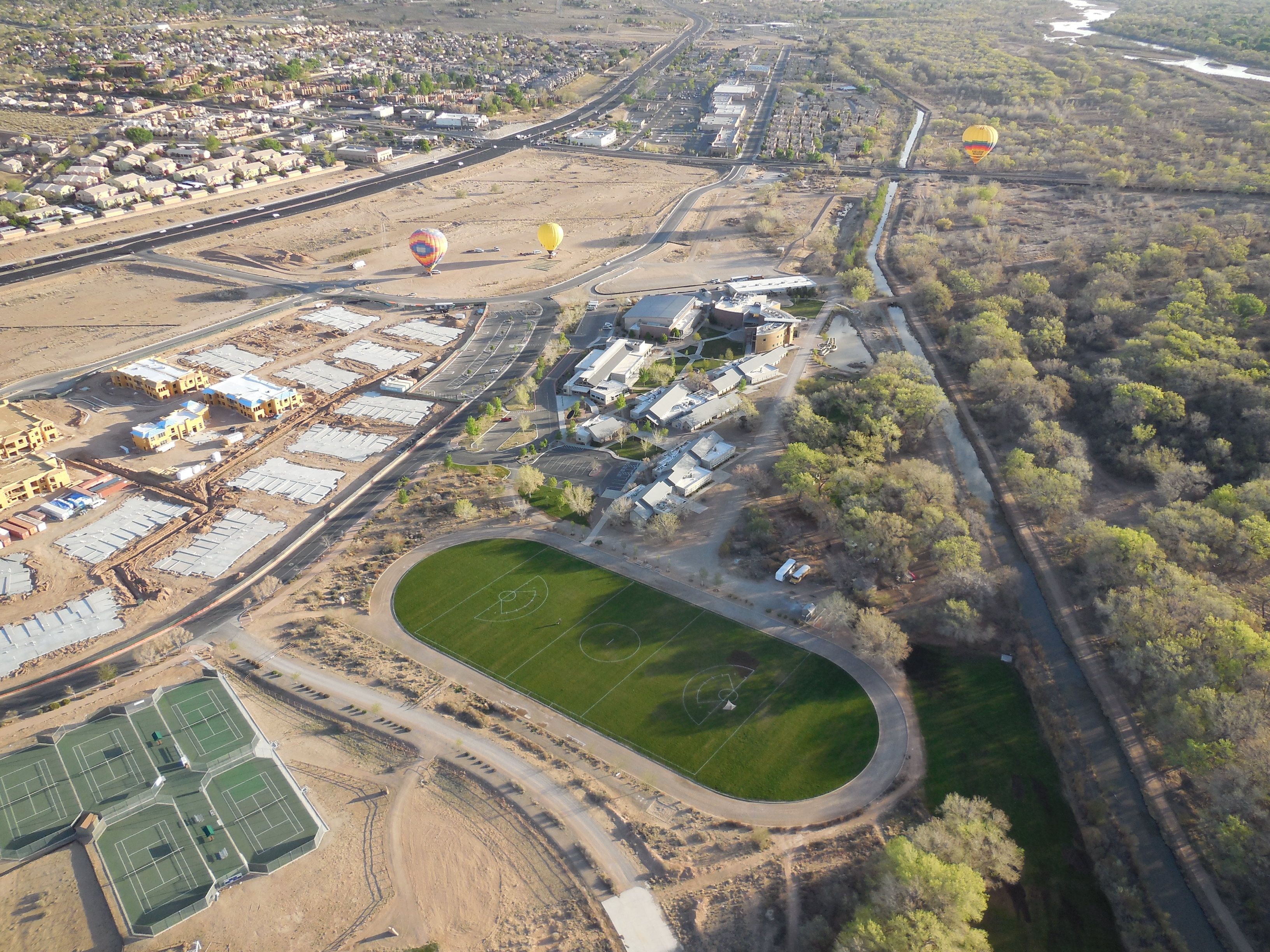 Bosque School from above.